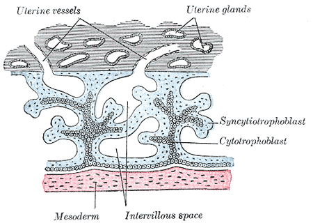 Primary chorionic villi. Diagrammatic. (Modified from Bryce.)